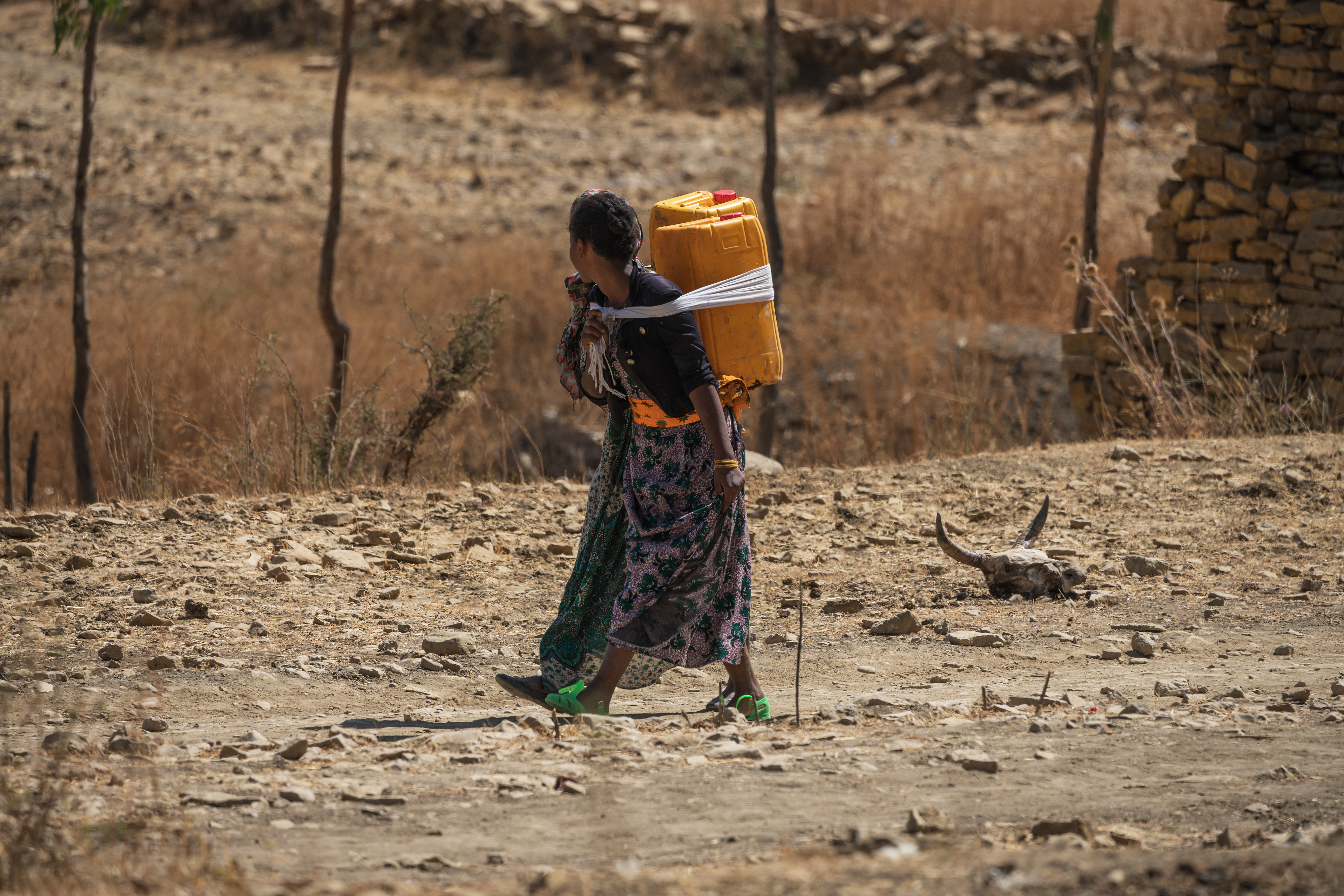 Girls bearing water at the countryside near Tigray Monument in Mekele, Ethiopia